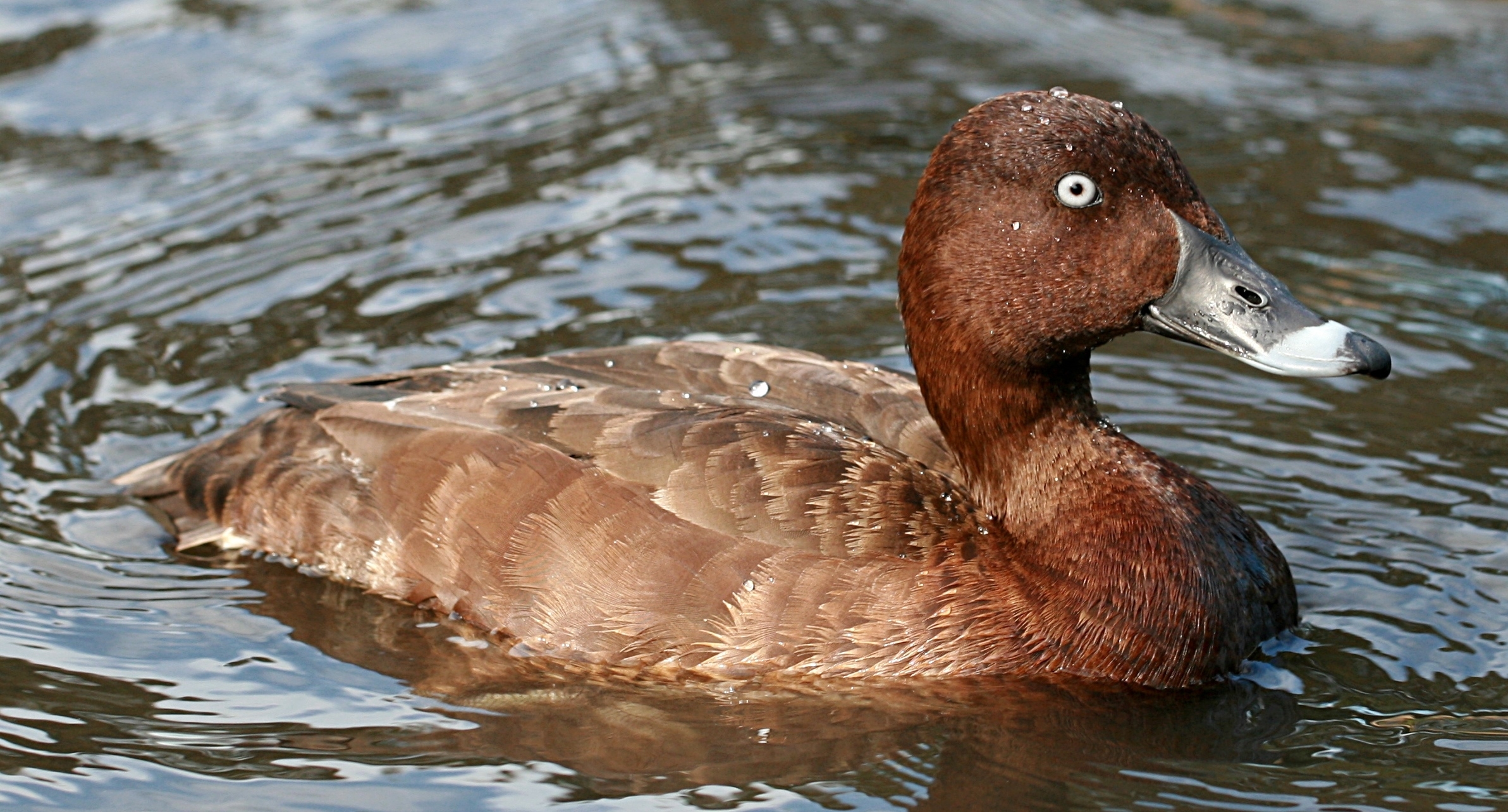 A male Hardhead duck, Aythya australis, in Victoria Park, Sydney.